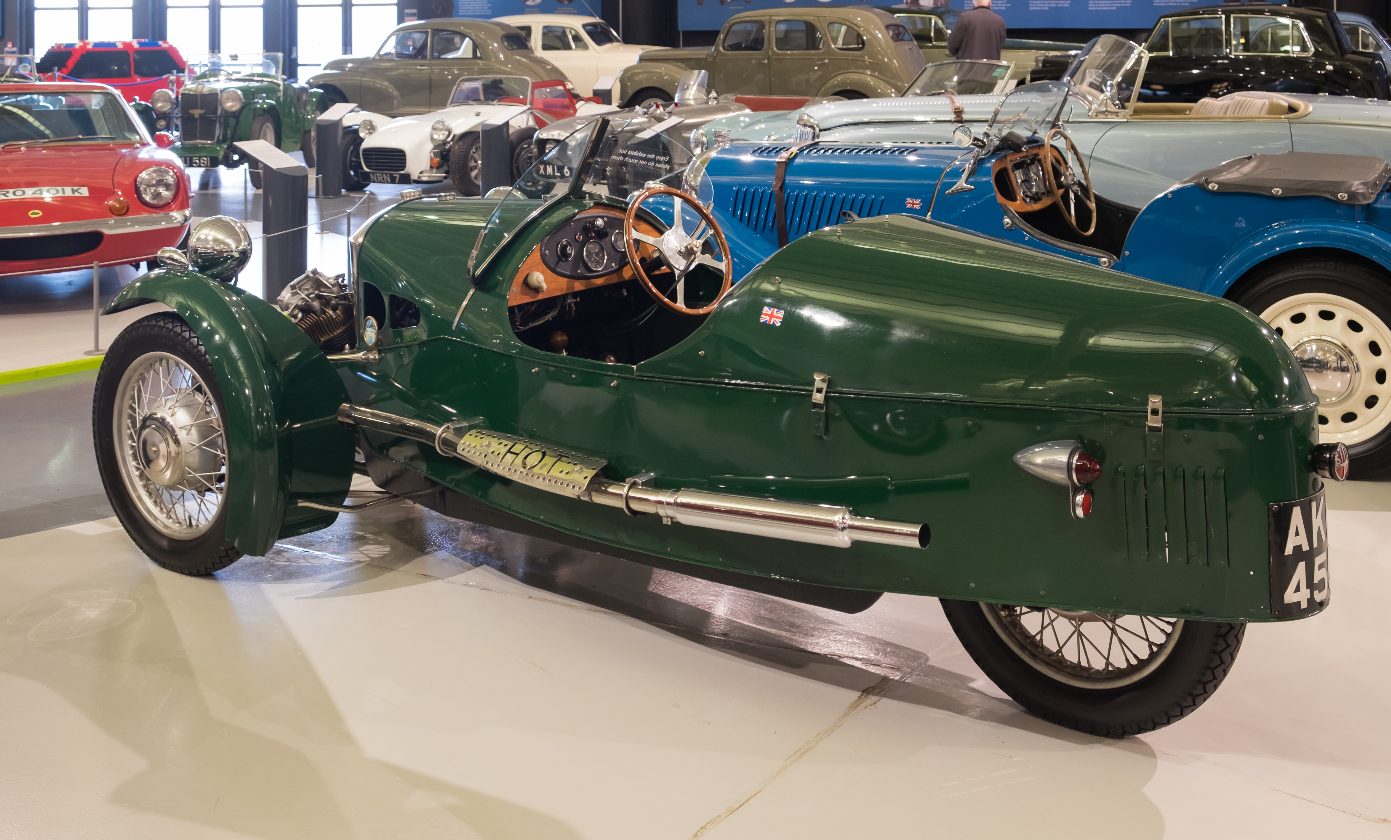 A 1935 Morgan Super Sports. This car, with registration mark AKD 455, is now kept at the British Motor Museum, Gaydon, UK.